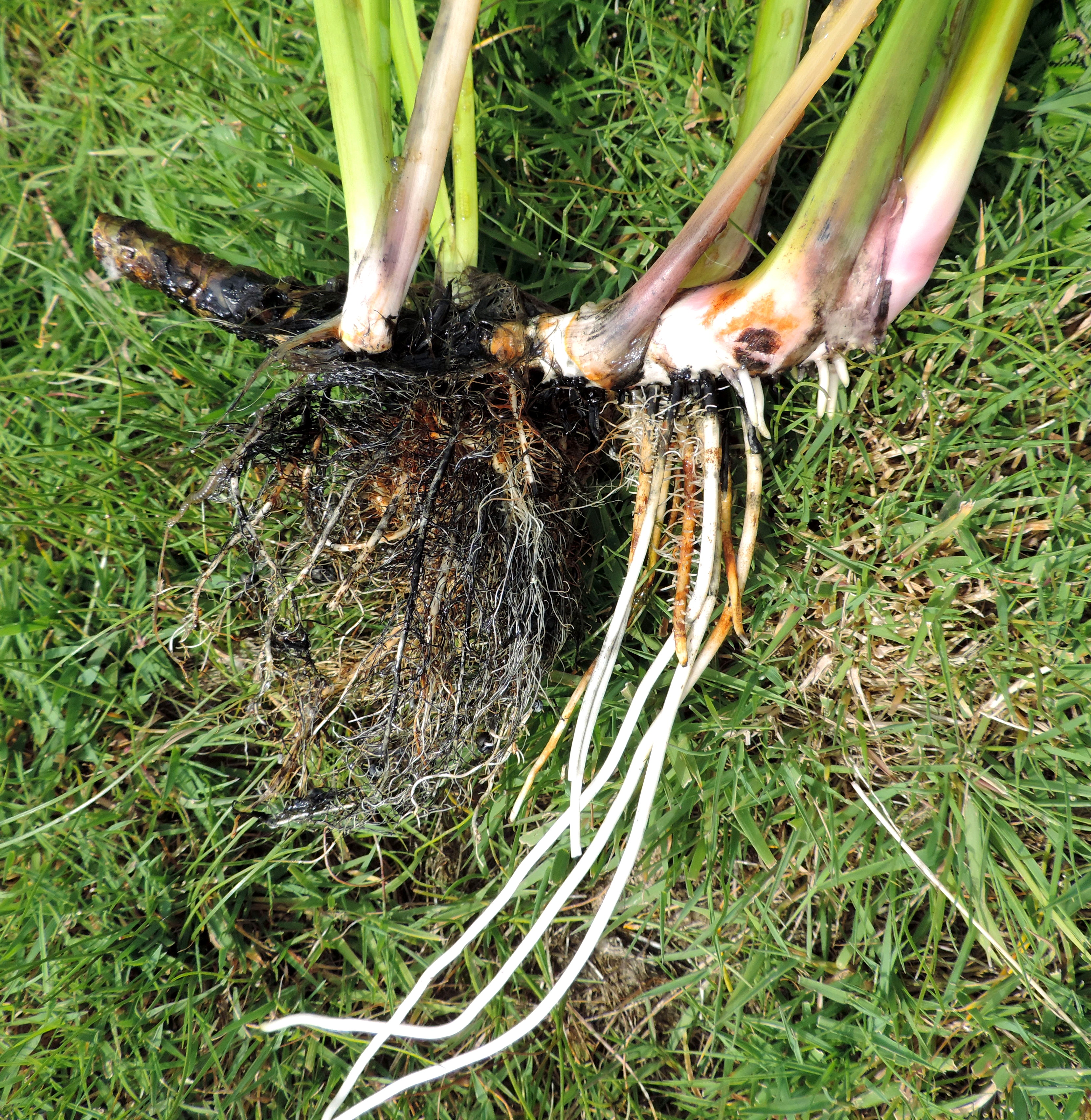 Acorus calamus. Rhizome and roots. Swinoujscie (NW Poland)